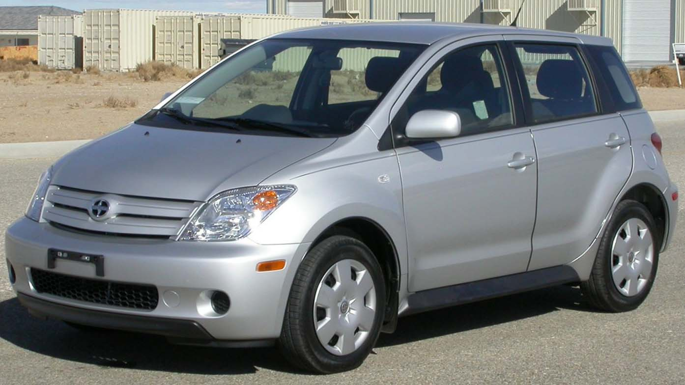 2004 Scion xA photographed in USA.